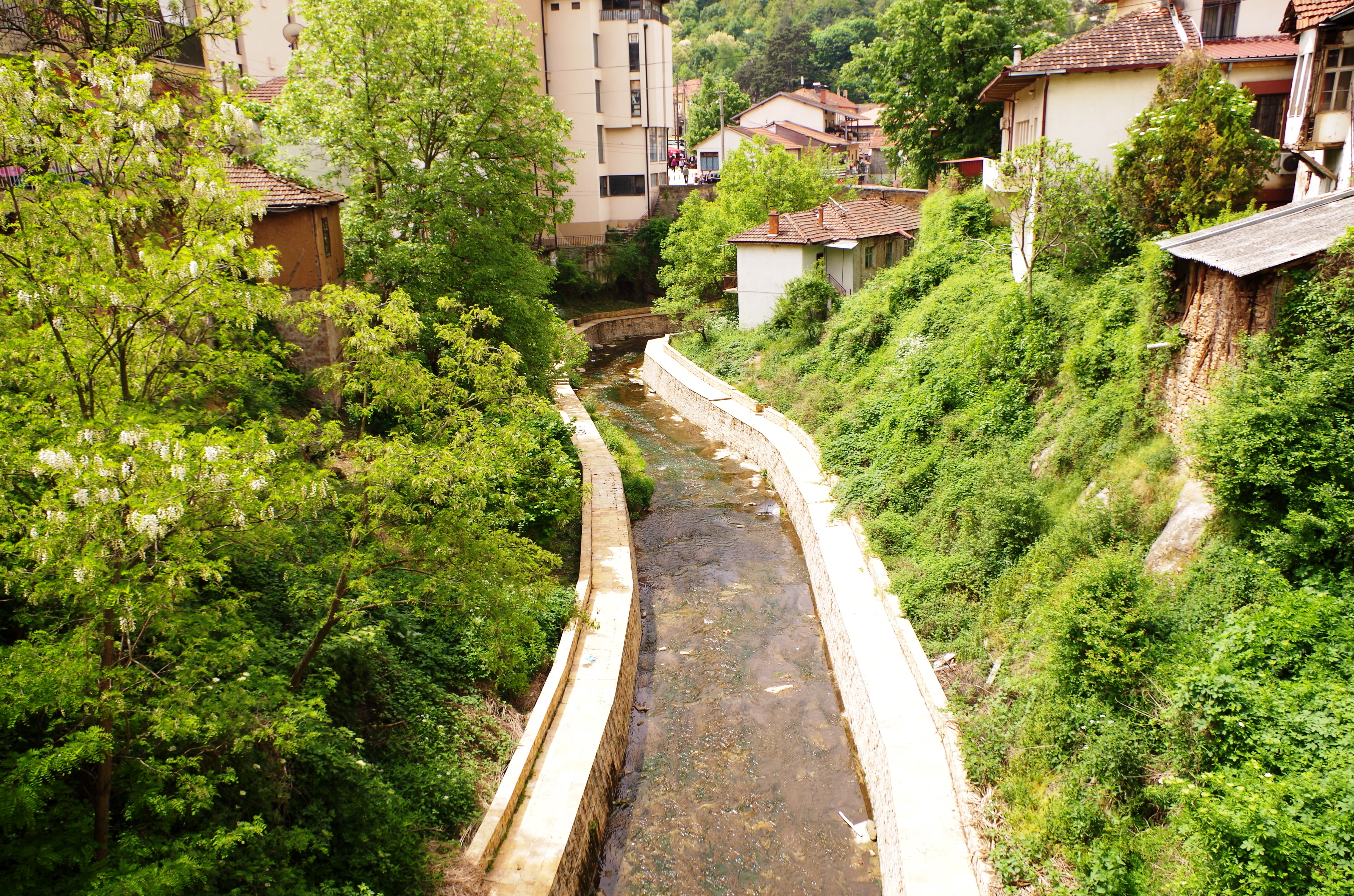 Kratovo River in the town Kratovo